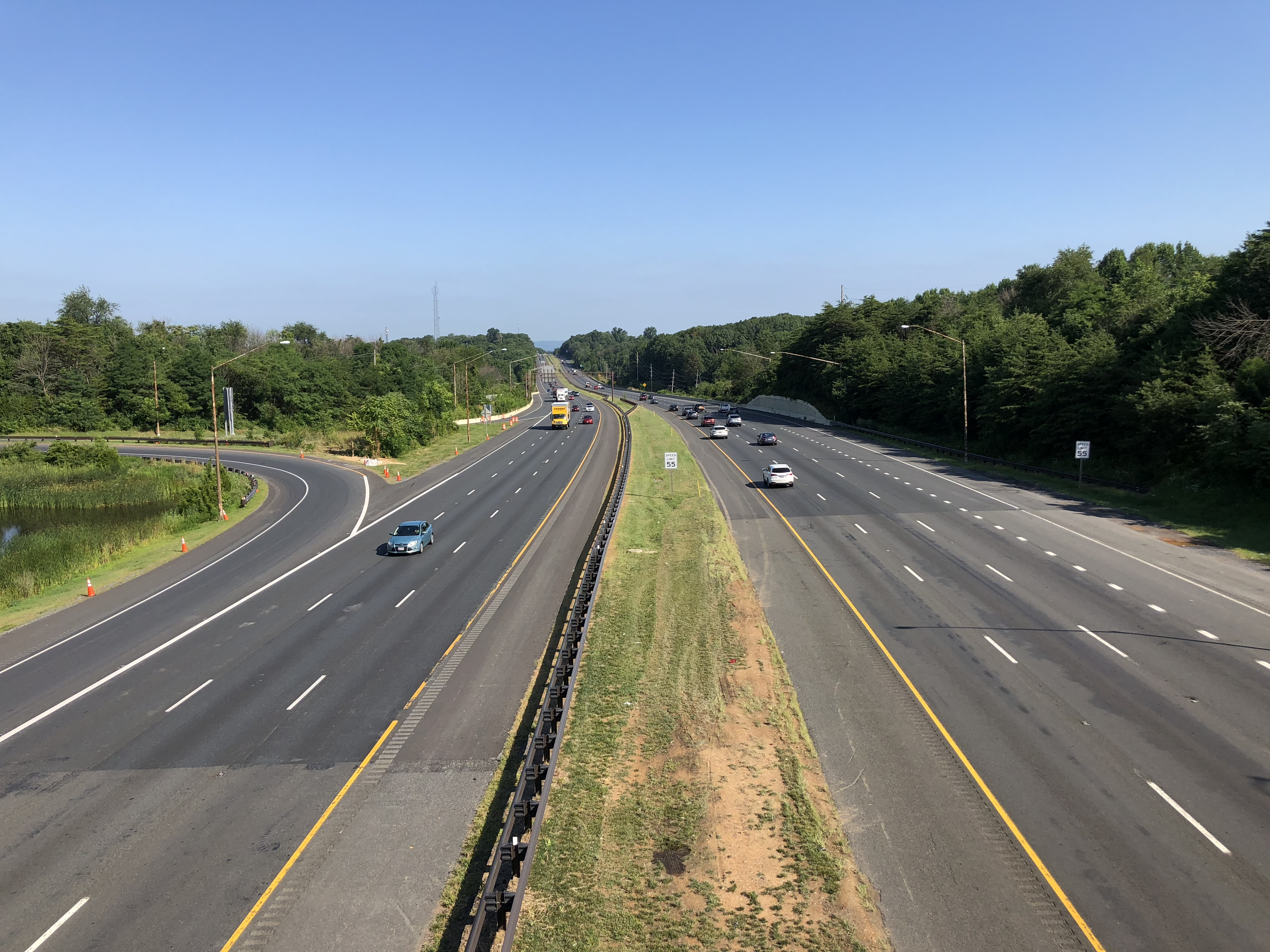 View north along Interstate 270 (Washington National Pike) from the overpass for Maryland State Route 121 (Clarksburg Road) in Clarksburg, Montgomery County, Maryland